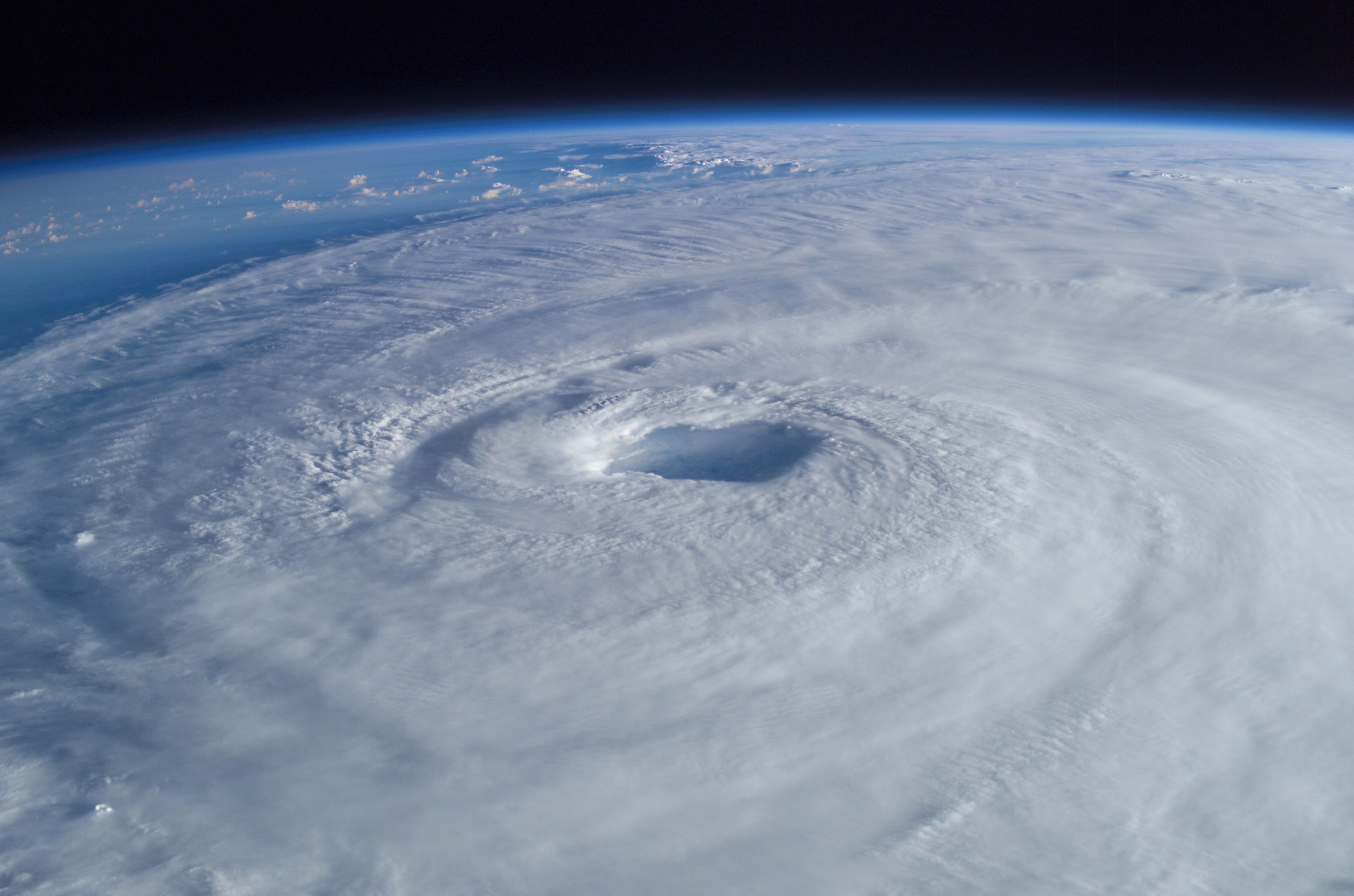 From his vantage point high above the Earth in the International Space Station, Astronaut Ed Lu captured this broad view of Hurricane Isabel. The image, ISS007-E-14750, was taken with a 50 mm lens on a digital camera.